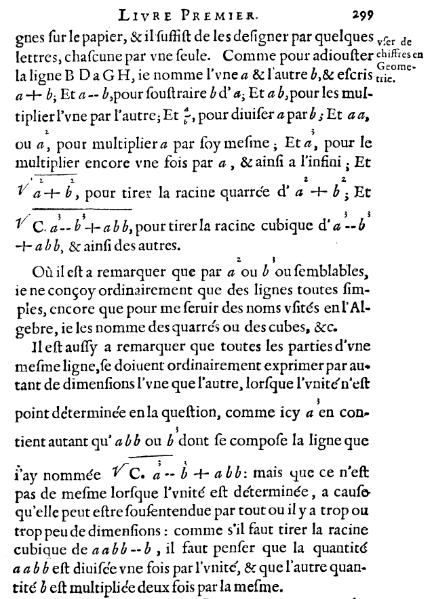 Descartes La Géométrie p. 299